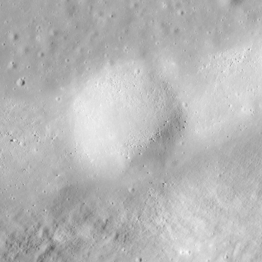 Bridge crater, Hadley–Apennine region, on the moon. Sun elevation 23 deg., spacecraft altitude 103 km.